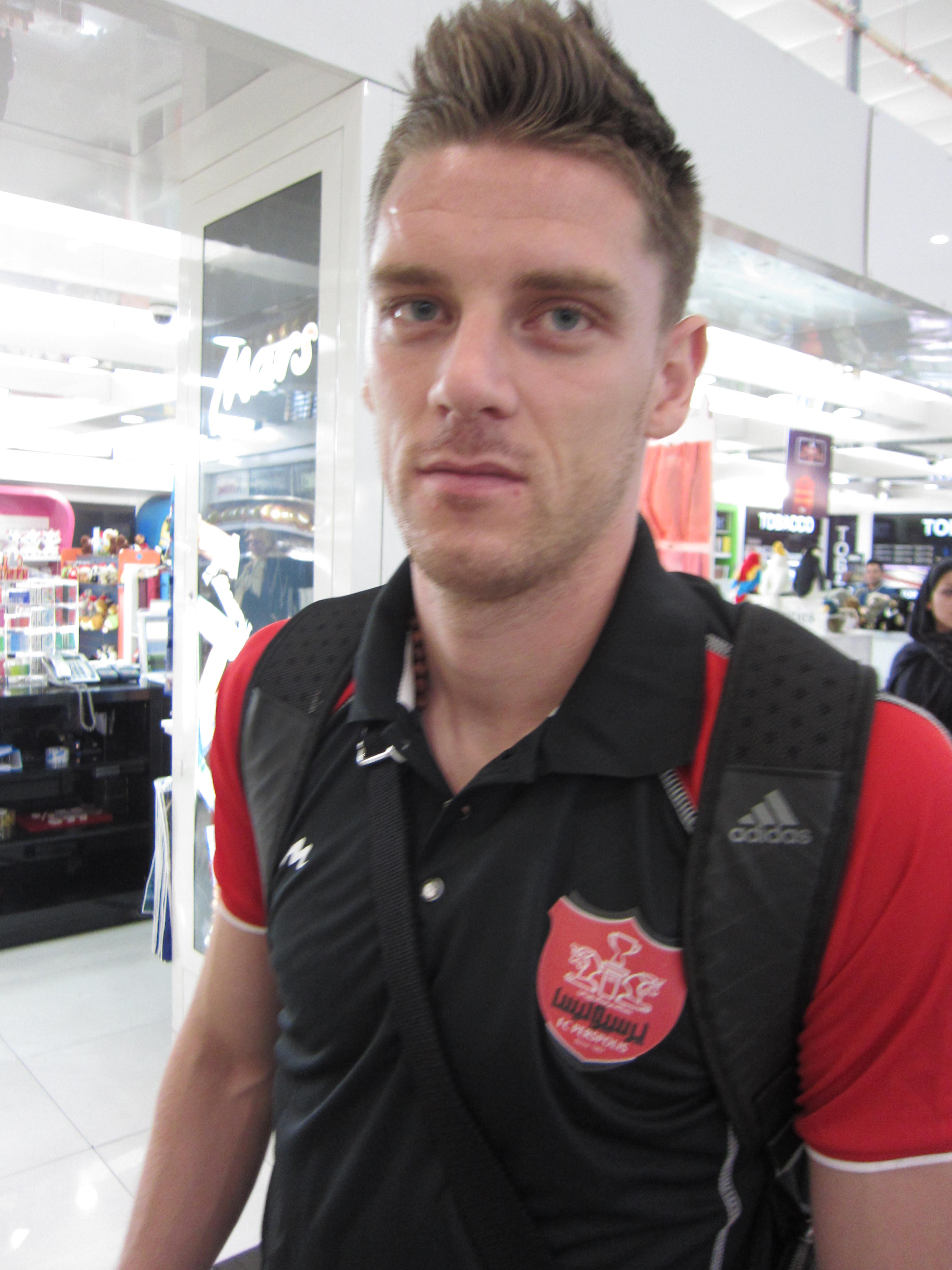 Luka Marić at Tehran Imam Khomeini International Airport